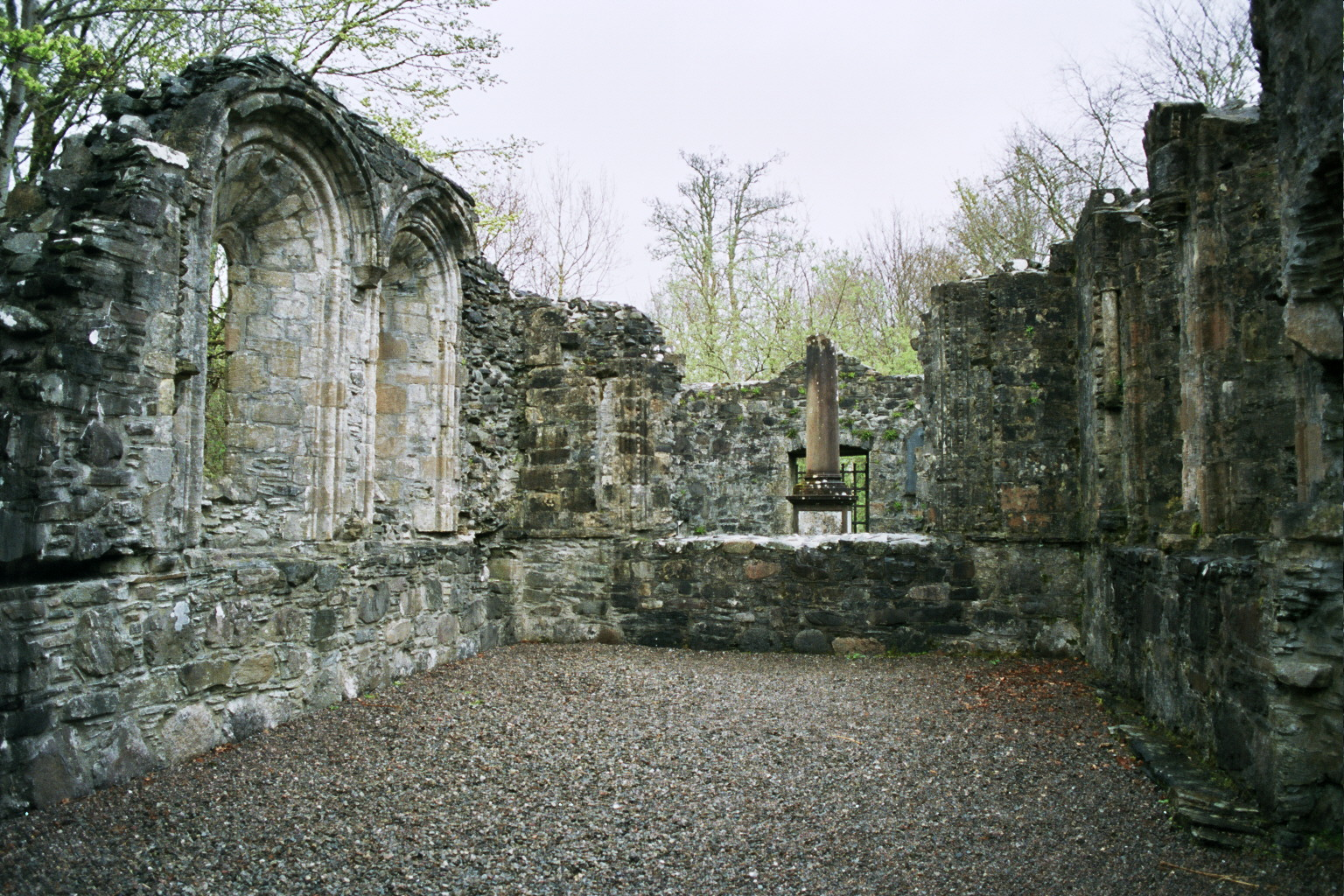 Interior of the east end of Dunstaffnage Chapel, near Dunstaffnage Castle, near Oban, Scotland.